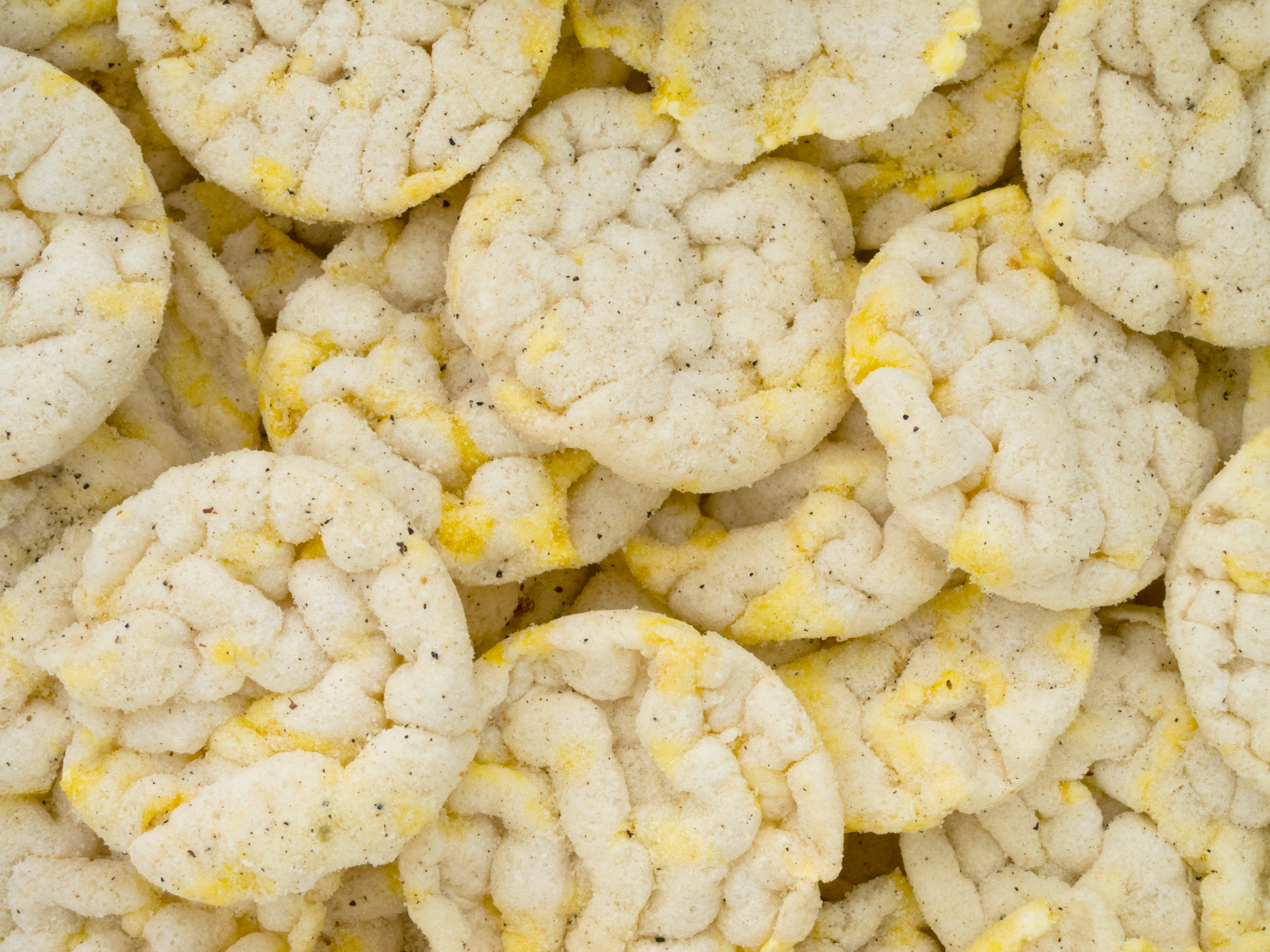 A pile of puffed rice cakes, commonly sold as a diet snack in North America. These are Quaker Oats "popped" brand, flavor is Sea Salt & Cracked Black Pepper.